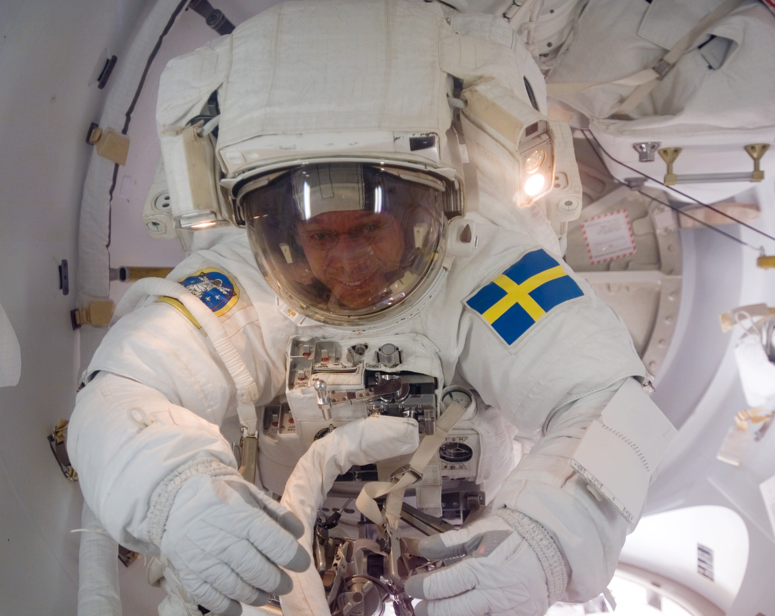 As the mission's first spacewalk draws to a close, European Space Agency (ESA) astronaut Christer Fuglesang, STS-116 mission specialist, moves through the Quest Airlock as he returns to the International Space Station.